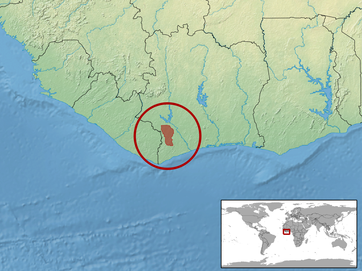 geographic distribution of Atheris hirsuta (Native: Côte d'Ivoire)